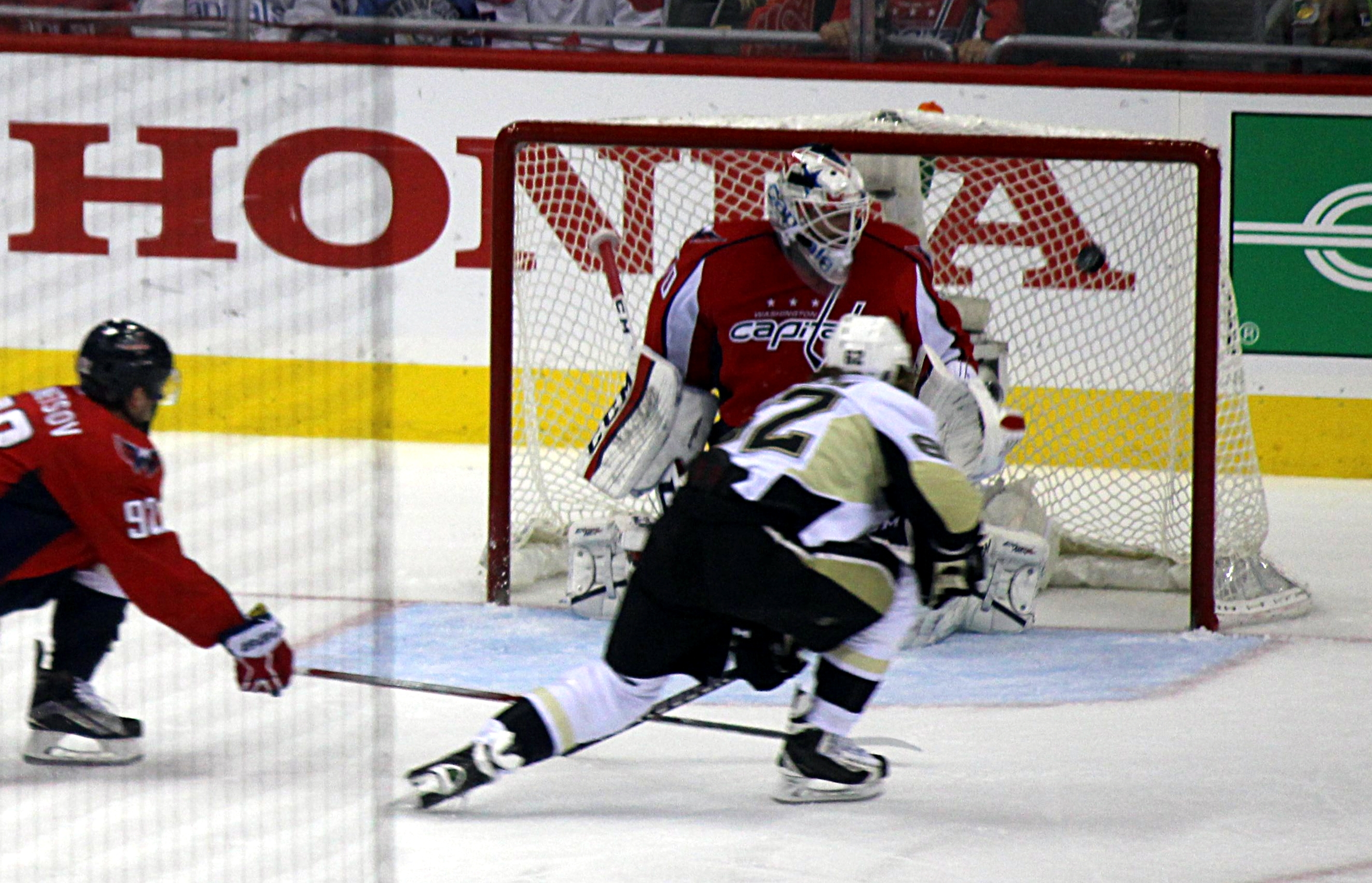 Pittsburgh Penguins forward Carl Hagelin scores on Washington Capitals goaltender Braden Holtby during a playoff game, Saturday, April 30, 2016 at Verizon Center in Washington, D.C.